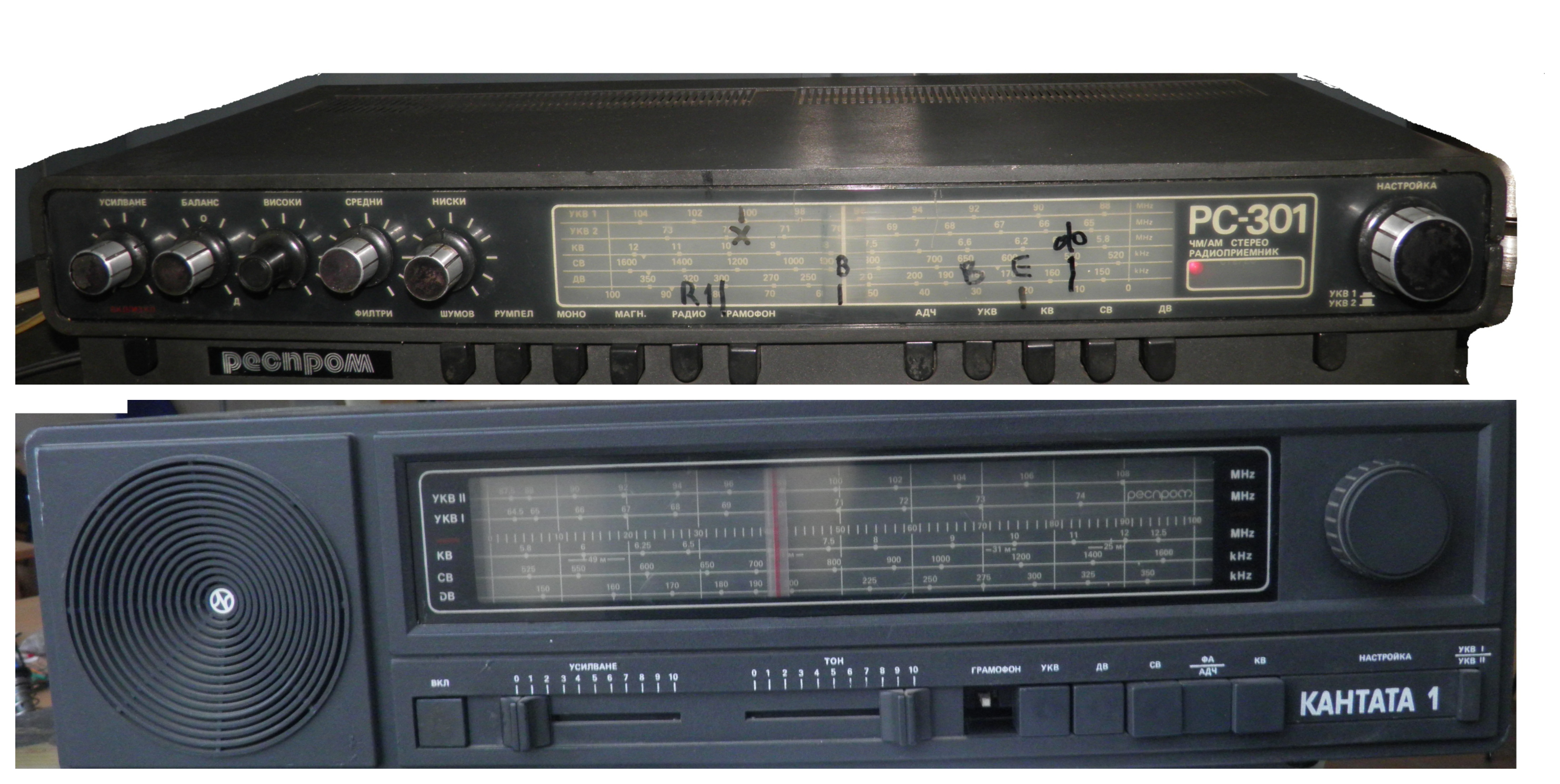 Bulgarian radios PC 301 and Kantata 1 (the latter has a built-in record player, not visible here)